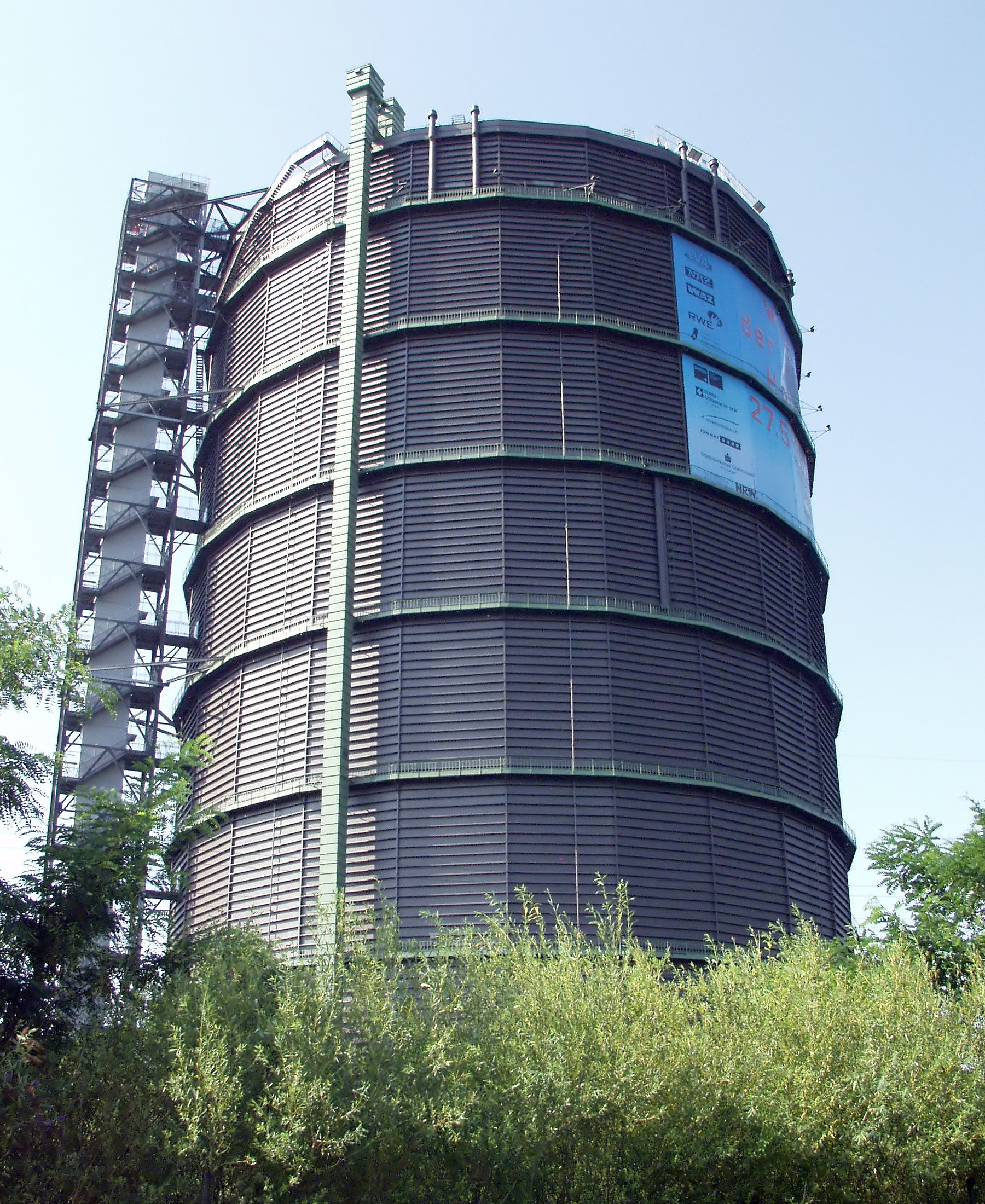 Gasometer at Oberhausen, Germany